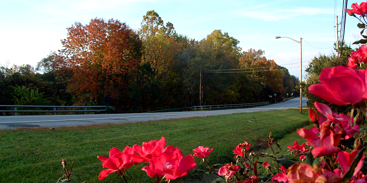 Looking northwest across Happy Hollow Road (Indiana State Road 443) toward Happy Hollow Park in West Lafayette, Indiana.